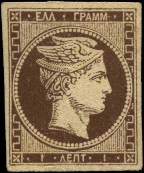 Alisaffi 1l. brown Aii type forgery